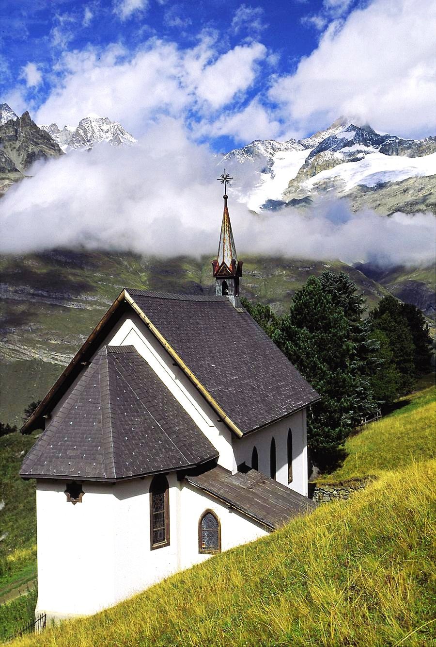 The chapel in Riffelalp (2220 m), near Zermatt